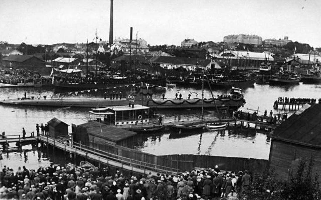 Finnish submarine Vetehinen shortly after her launch in Crichton-Vulcan shipyard in Turku, Finland.